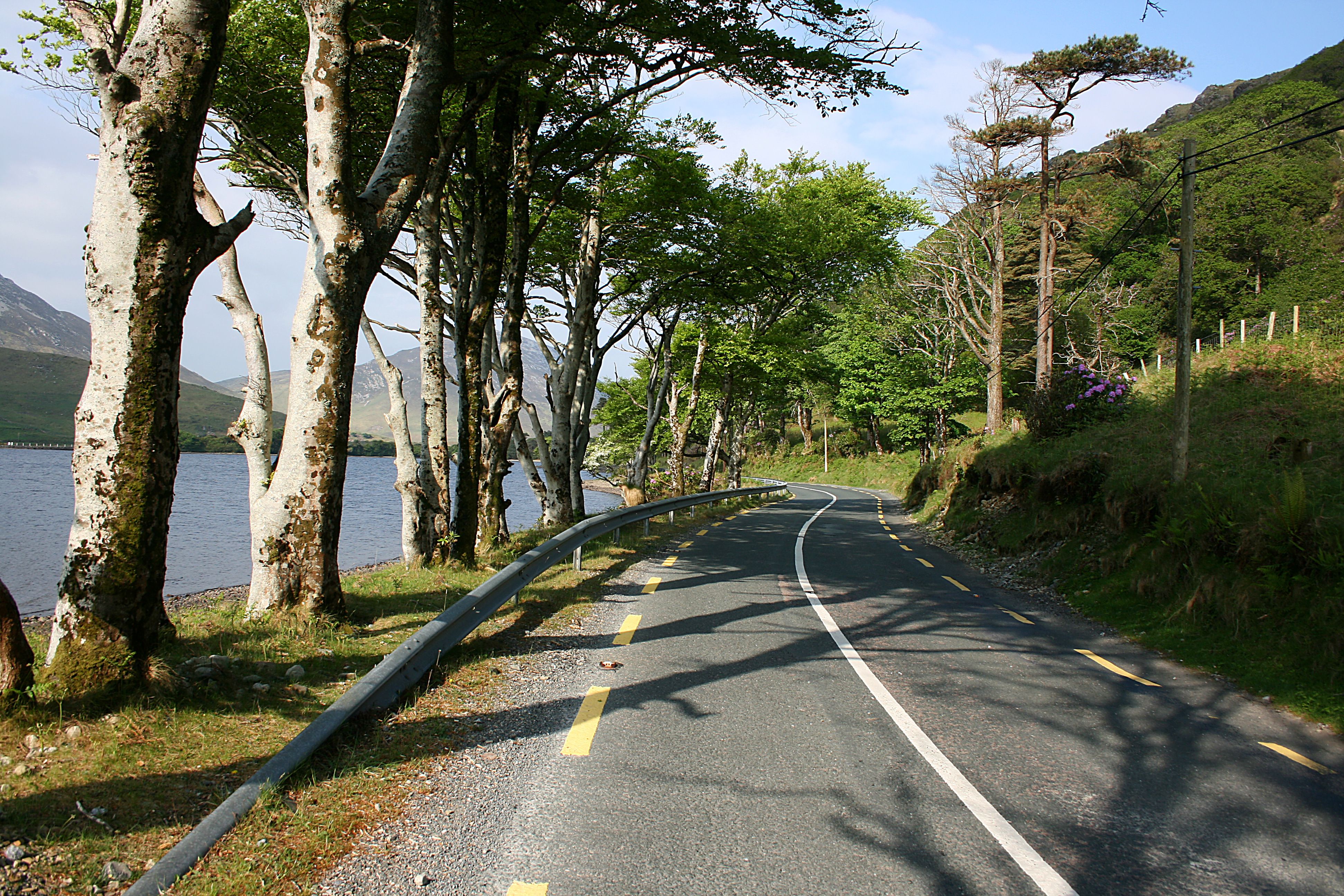 The road to Letterfrack Along the shore of Kylemore Lough